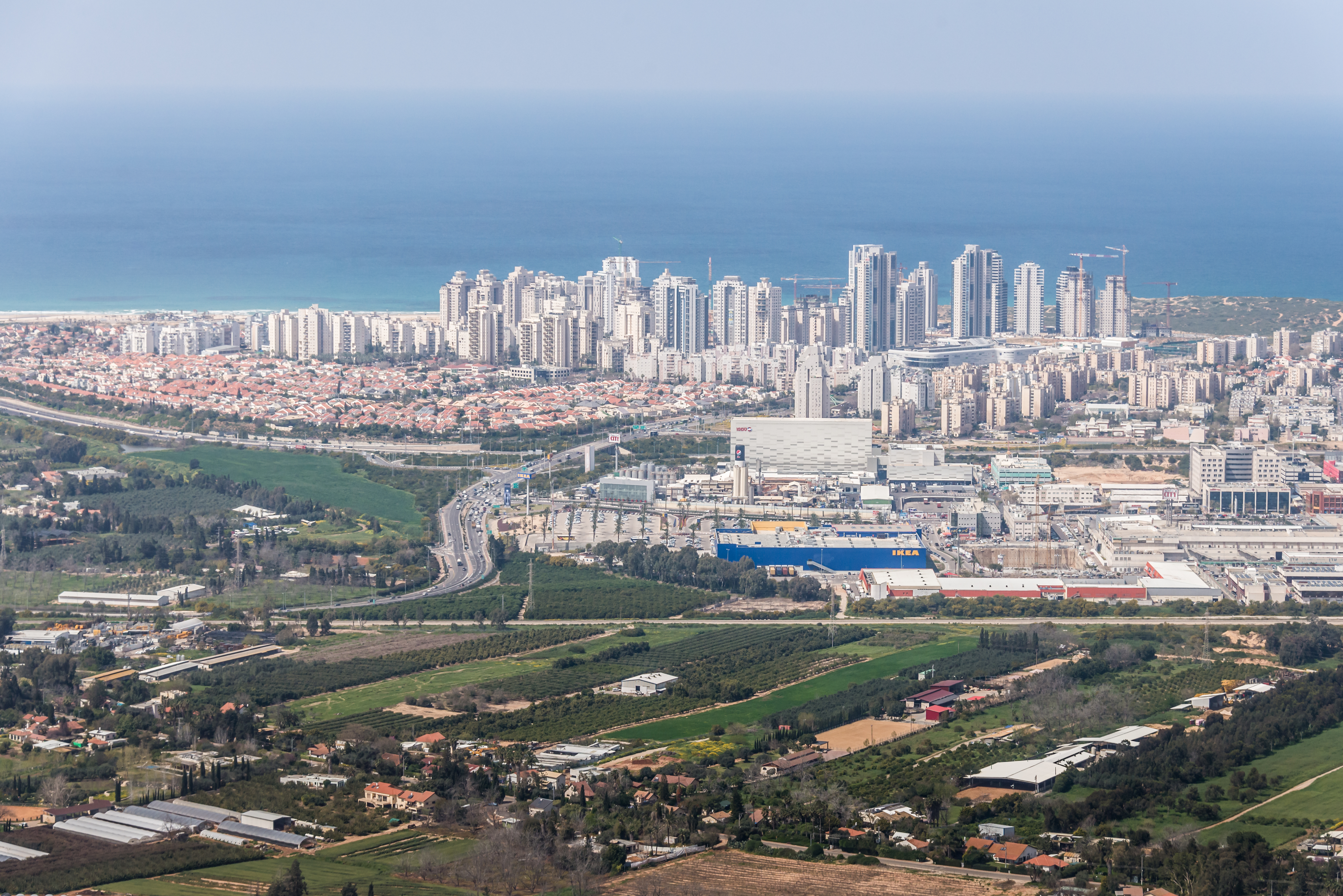 aerial photography, IKEA, Ir Yamim, Netanya